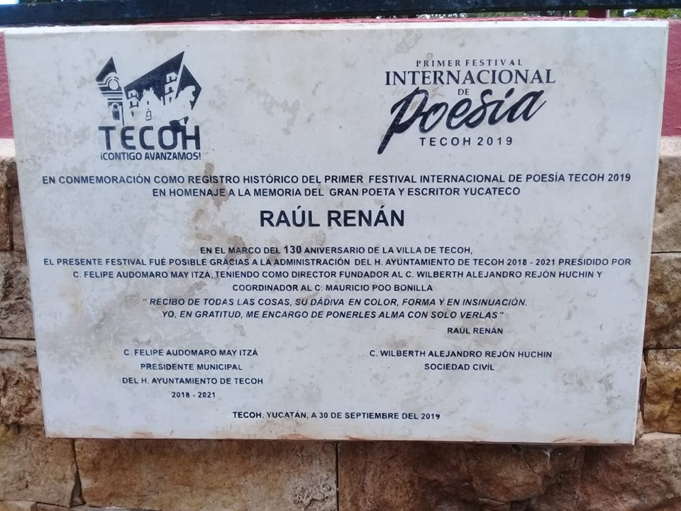 Placa conmemorativa Festival Internacional de Poesía Tecoh,Yucatán.